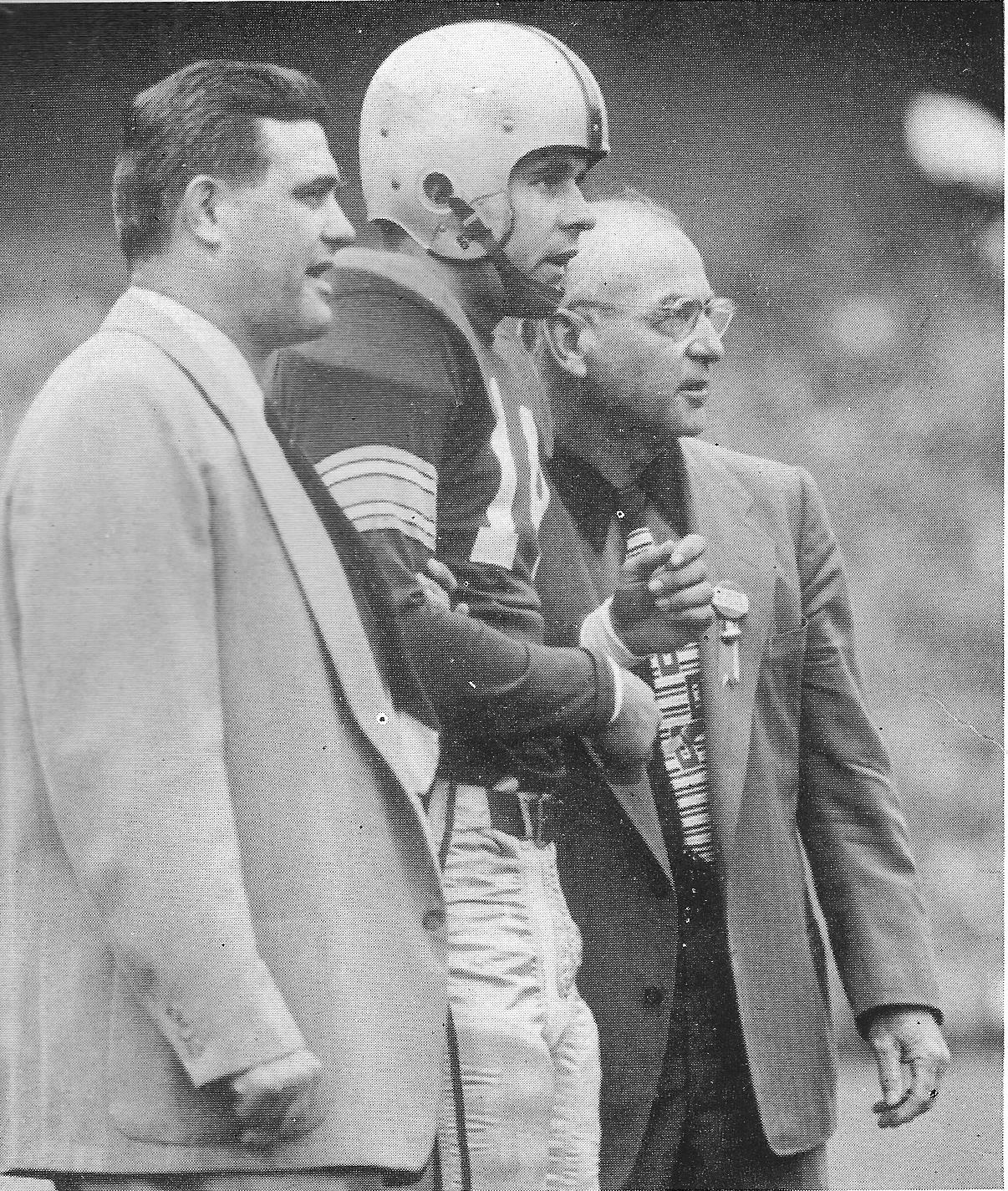 Photograph of Ohio State football coach Woody Hayes with fullback Dick Doyle and assistant coach Ernie Godfrey